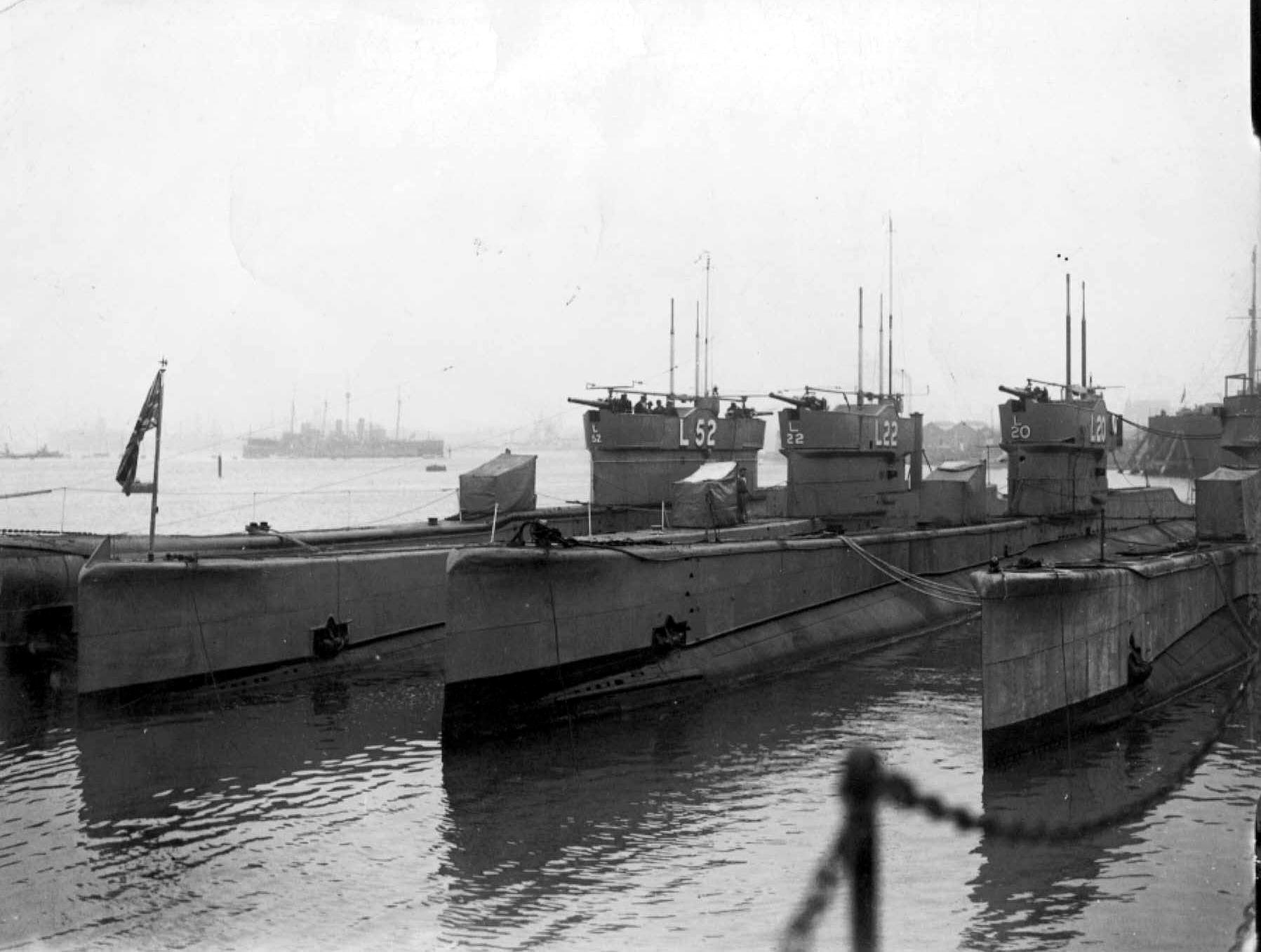 Note on back of Photograph: Reserve Submarine Flotilla at Fort Blockhouse Dec 1933. L52 & L22 Training Half Flotilla L20 & L6 Special Service Target Boats.